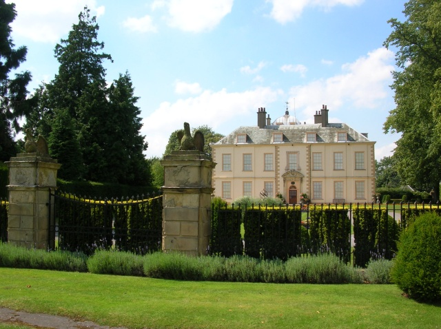 Myton Hall Owned by Ken Morrison (of the supermarket), this large property stands in the village of Myton on Swale.